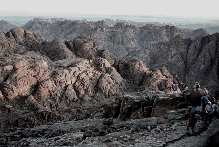 A typical view in the Sinai desert.